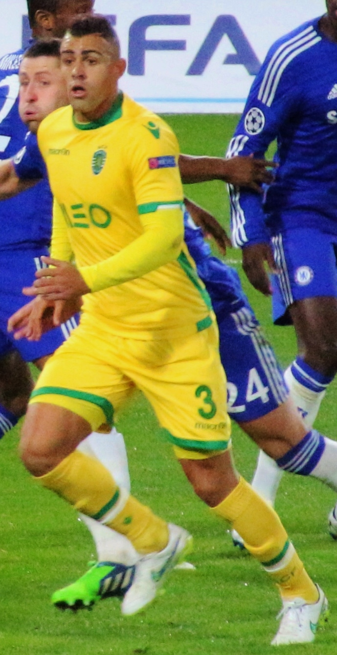 Maurício dos Santos Nascimento